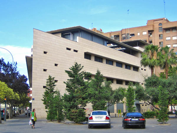 Social centre in Amistat neighbourhood, Valencia, Spain